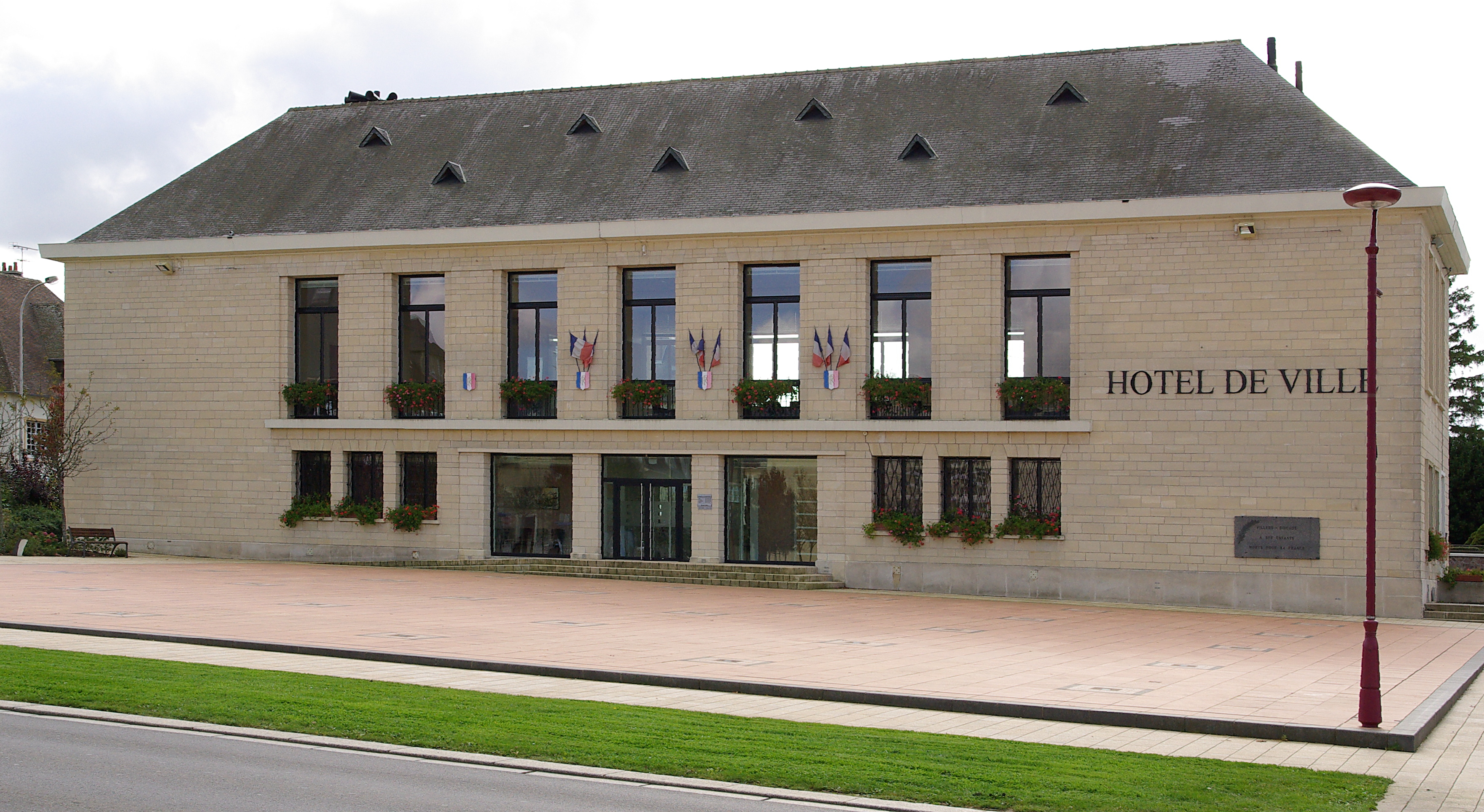 The Town hall of Villers-Bocage.